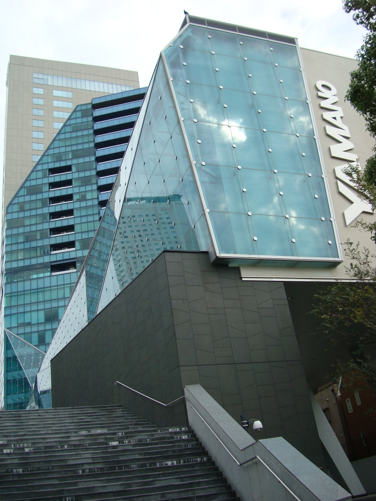 MY Tower (M.Yamano Tower) in Yoyogi district, Tokyo